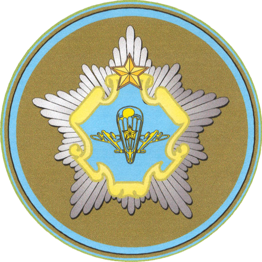 Sign armband Special Operations Forces of Belarus Беларуская (тарашкевіца): Эмблема сілаў спэцыяльных апэрацыяў РБ